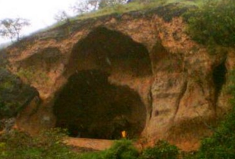 كهف رزات المطل على العين